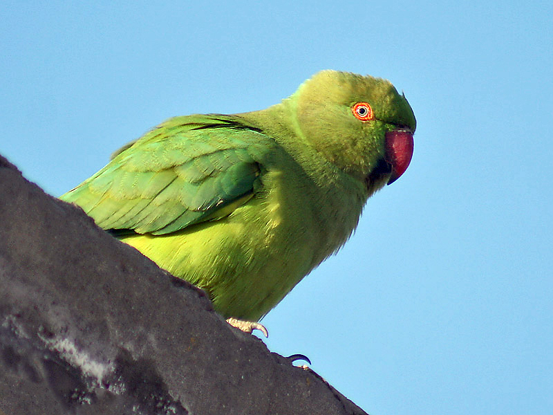 Rose-ringed Parakeet Psittacula krameri at Hodal, in Faridabad, District of Haryana, India.